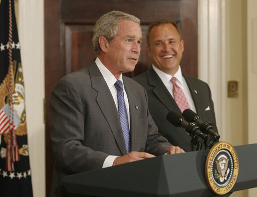 President George W. Bush introduces former Iowa Rep. Jim Nussle Tuesday, June 19, 2007 in the Roosevelt Room, as his nominee to be the new director of the Office of Management and Budget replacing outgoing director Rob Portman. White House photo by Debra Gulbas